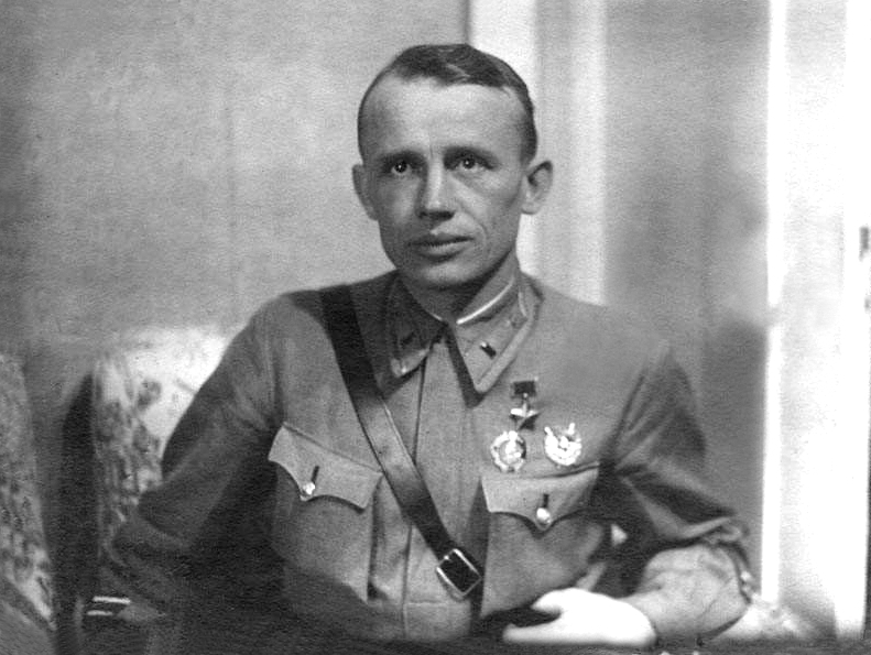 The captain Ya. I. Antonov at home during the next vacation.